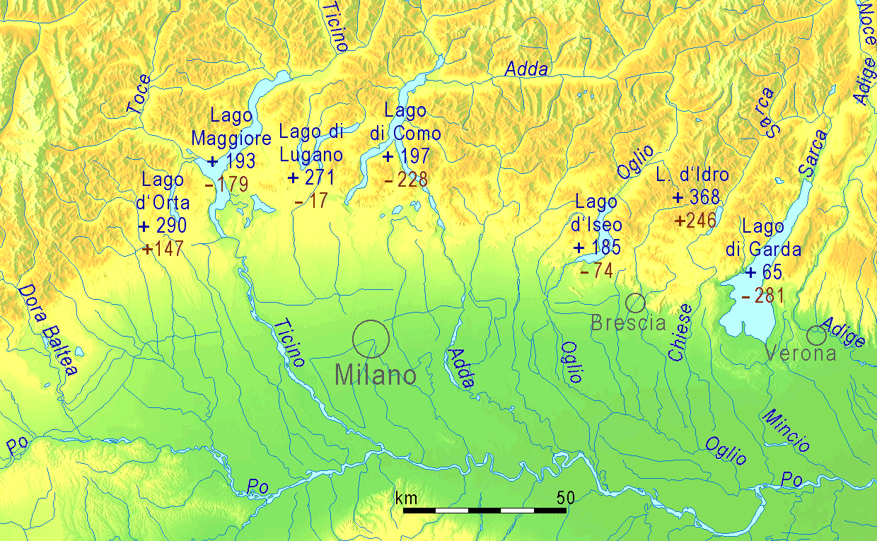 Fjord-like lakes on the southern side of the Alps, blue figures = water level in meters above sea level, brown figures = maximum depth of lake in meters above (" + ") or below (" - ") sea level